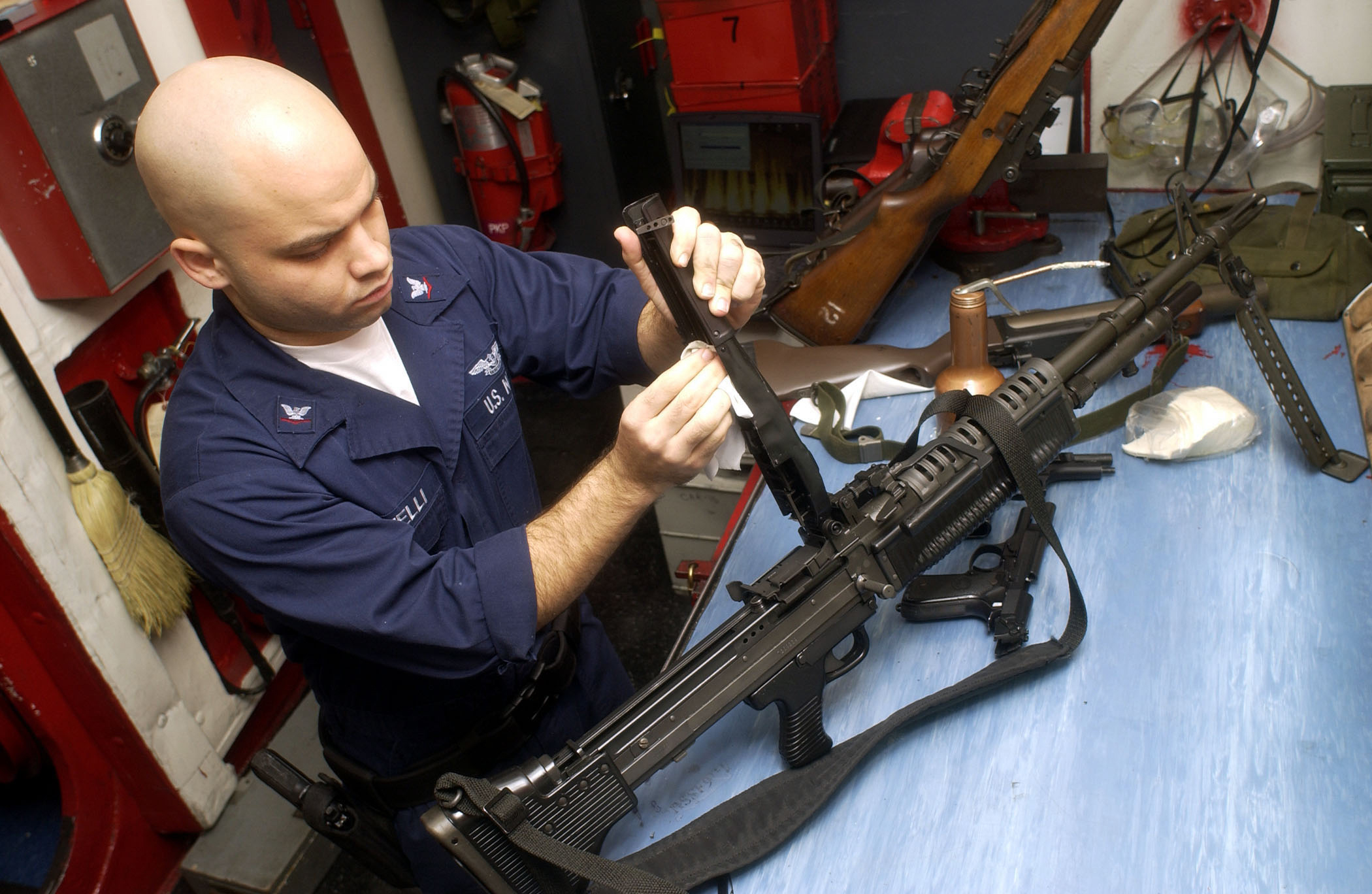 At sea aboard USS Constellation (CV 64) Dec. 19, 2002 -- Gunner’s Mate 3rd Class Anthony Pinelli conducts preventative maintenance and cleaning of an M-60 machine in the ship’s armory. Constellation is on a regularly scheduled six month deployment conducting combat missions in support of Operation Enduring Freedom. U.S. Navy photo by Photographer's Mate 3rd Class Prince Albert Hughes III. (RELEASED)